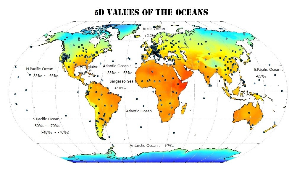 Modified by inserting the data from [Clog, Matthieu; Aubaud, Cyril; Cartigny, Pierre; Dosso, Laure (2013). "The hydrogen isotopic composition and water content of southern Pacific MORB: A reassessment of the D/H ratio of the depleted mantle Reservoir". Planetary Science Letters 381: 156-165.] and [Englebrecht A. C., Sachs J. P. (2005) Determination of sediment provenance at drift sites using hydrogen isotopes and unsaturation ratios in allkenones. Geochimina et Cosmochimica Acta, Vol. 69, No. 17, pp. 4253-4265] on the map from